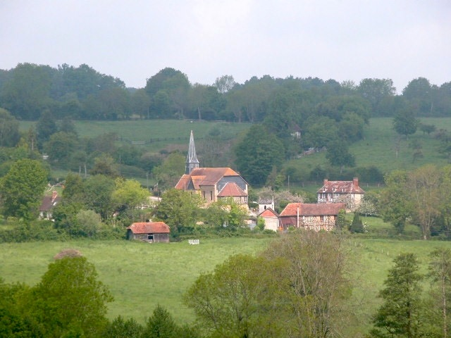 general view of the village centre of Saint-Georges-en-Auge (Calvados, France).